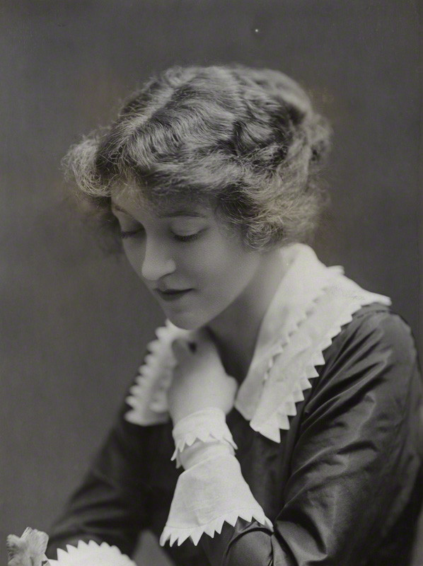 by Bassano, vintage print